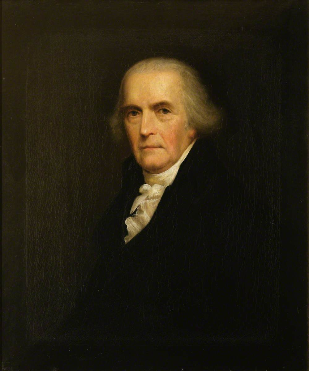 oil, James Byres of Tonley (1734-1817) half-length in a black costume.